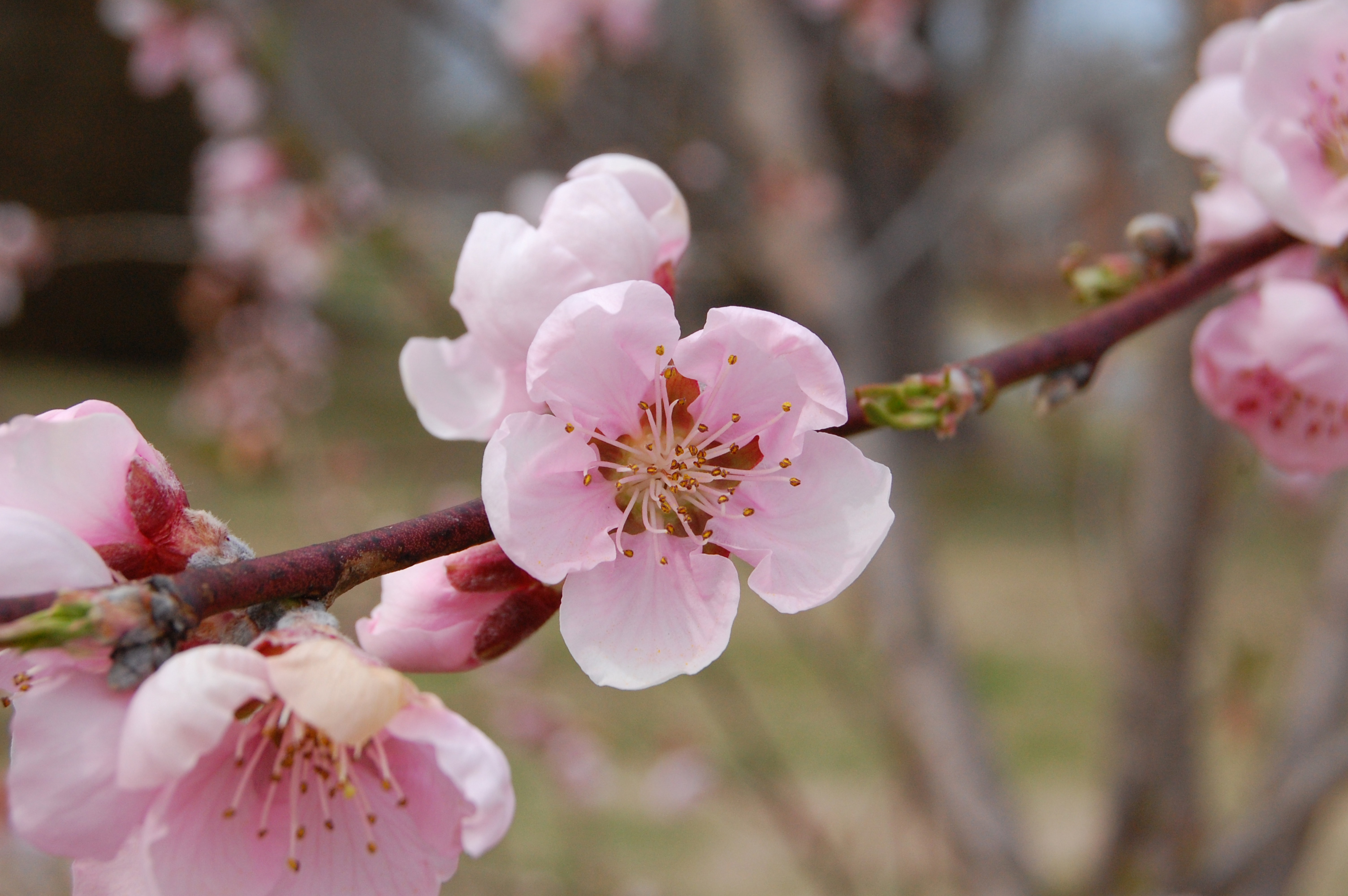 Peach blossom in early spring, North Carolina